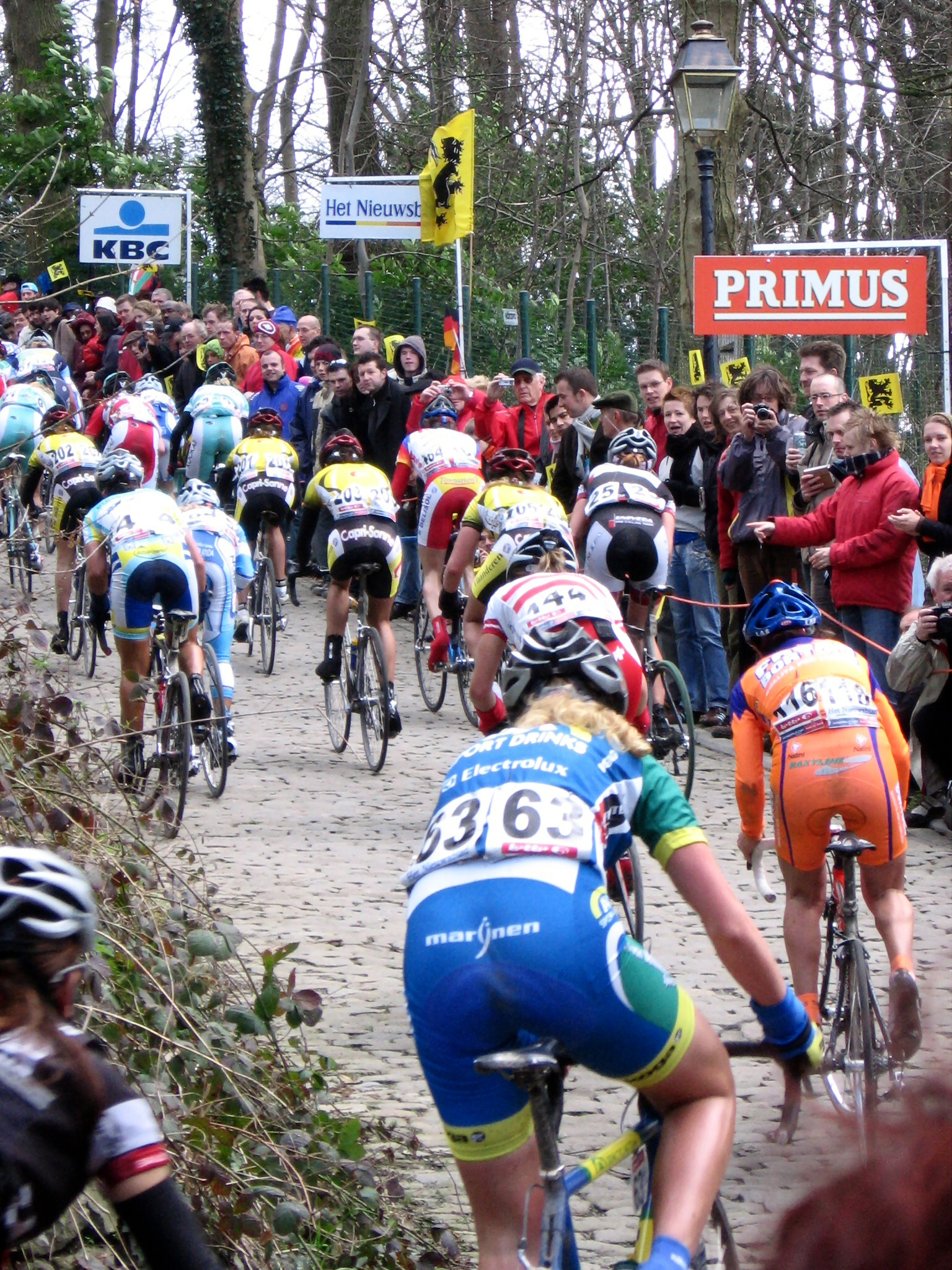 The Muur van Geraardsbergen (wall of Geraardsbergen). Picture taken during the 3rd edition of the Ronde van Vlaanderen (Tour of Flanders) for women. Picture taken on April 2, 2006 by Lander Vandergucht.